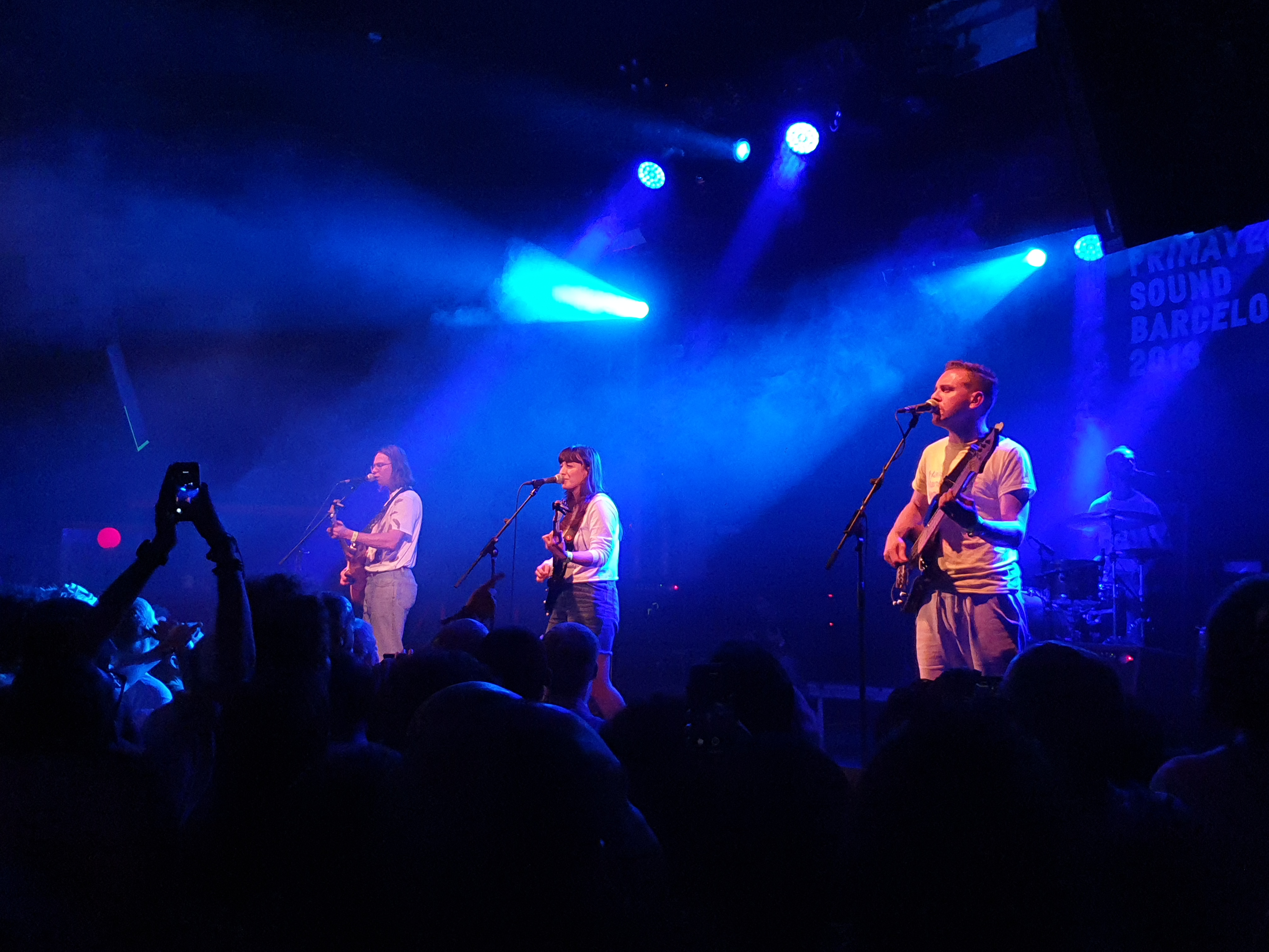 The Beths performing at Sala Apolo during Primavera Sound 2019